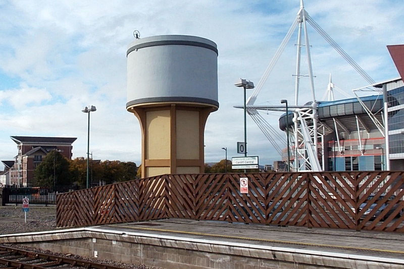 Grade II listed former Water Tower at Platform 0, Cardiff Central Station, repainted in Great Western Railway brown and beige in 2012. Other information Image cropped in height by me, Sionk, to focus more on the water tower